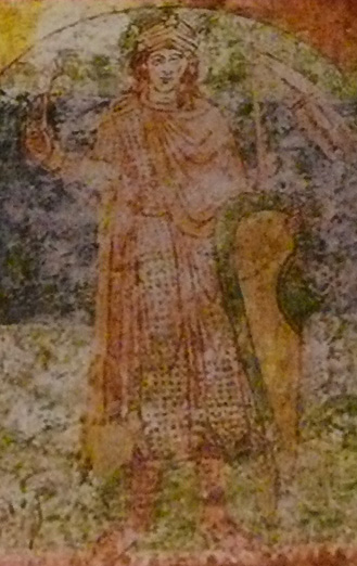 Vratislaus I of Bohemia